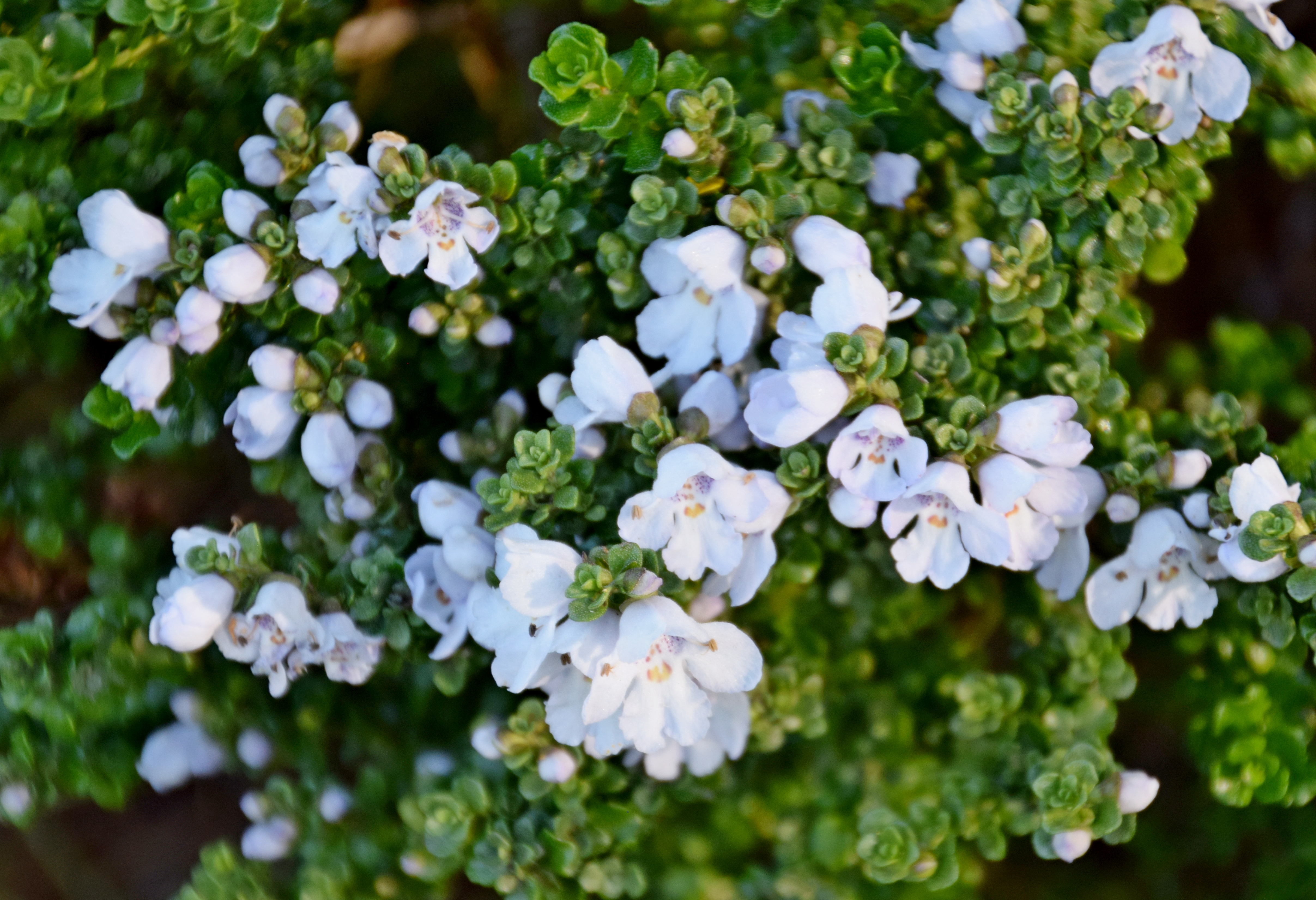 Prostanthera cuneata in Dunedin Botanic Garden, Dunedin, New Zealand